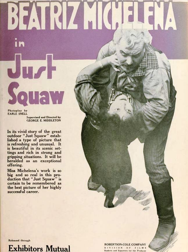 Ad for the American film Just Squaw (1919) with Beatriz Michelena and an unidentified actor, from color insert after page 746 of the May 10, 1919 Moving Picture World.